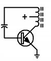 Created by User:Endomion Endomion to supplement article Created by Endomion to supplement article